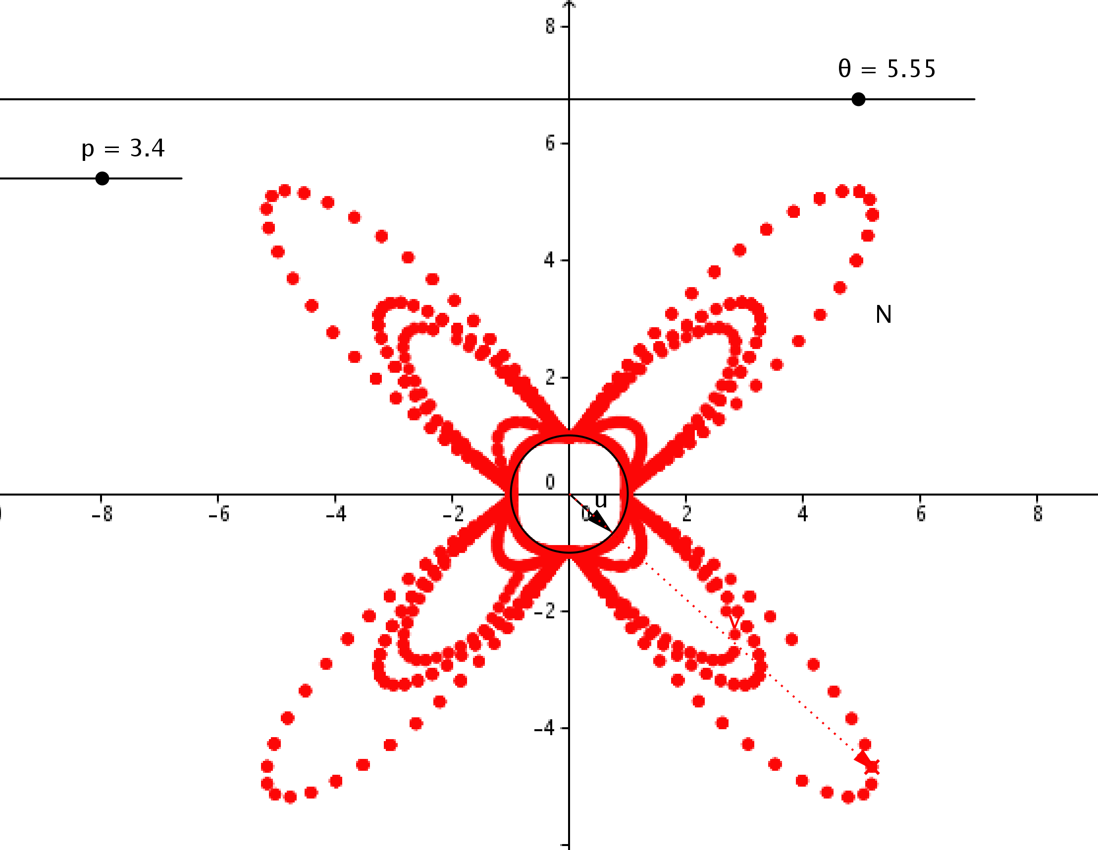 Nehari Manifolds in with the counting measure.